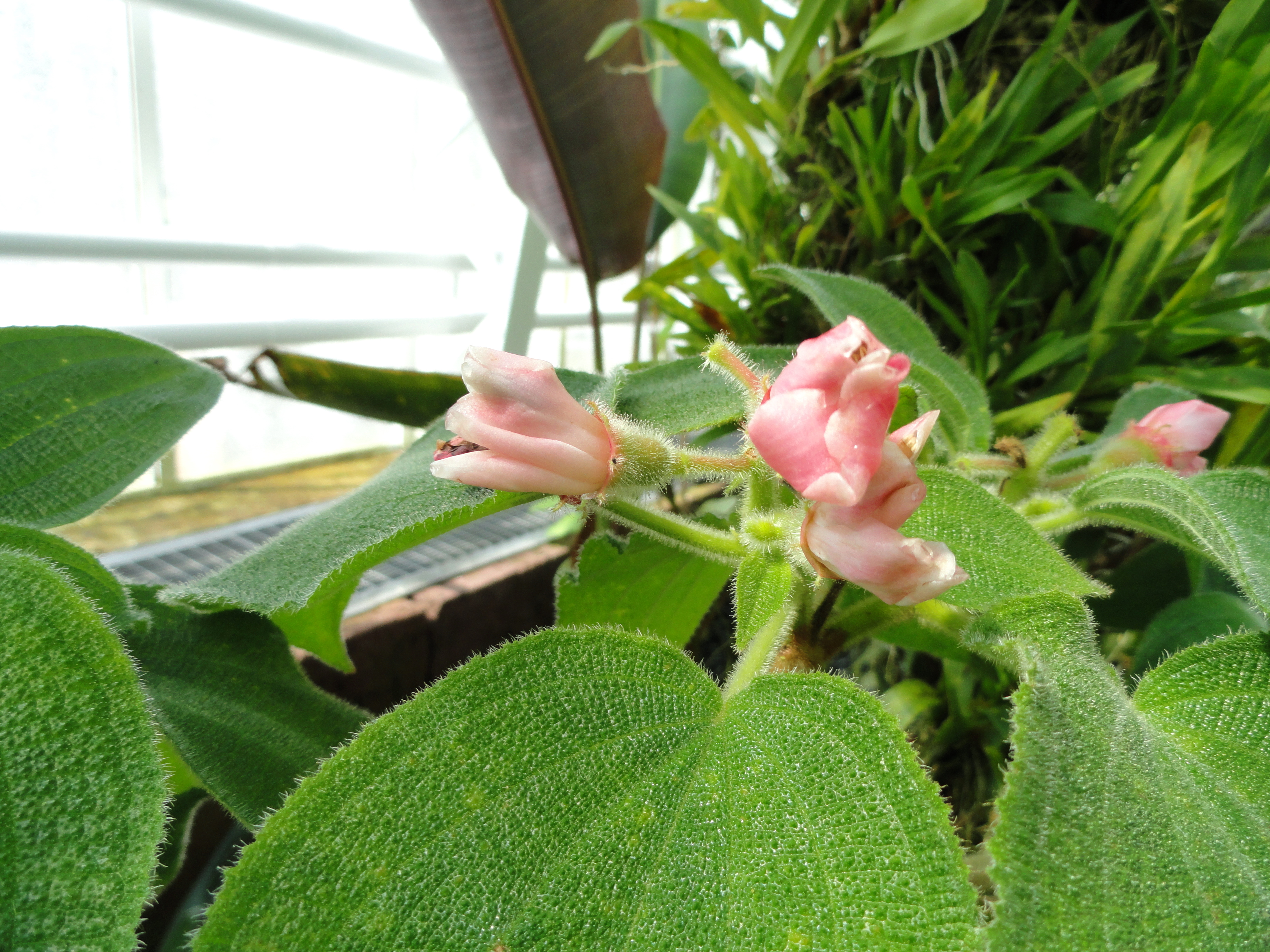 Miconia macrodon specimen in the Botanischer Garten München-Nymphenburg, Munich, Germany.